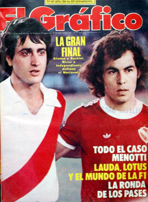 Norberto Alonso and Ricardo Bochini.